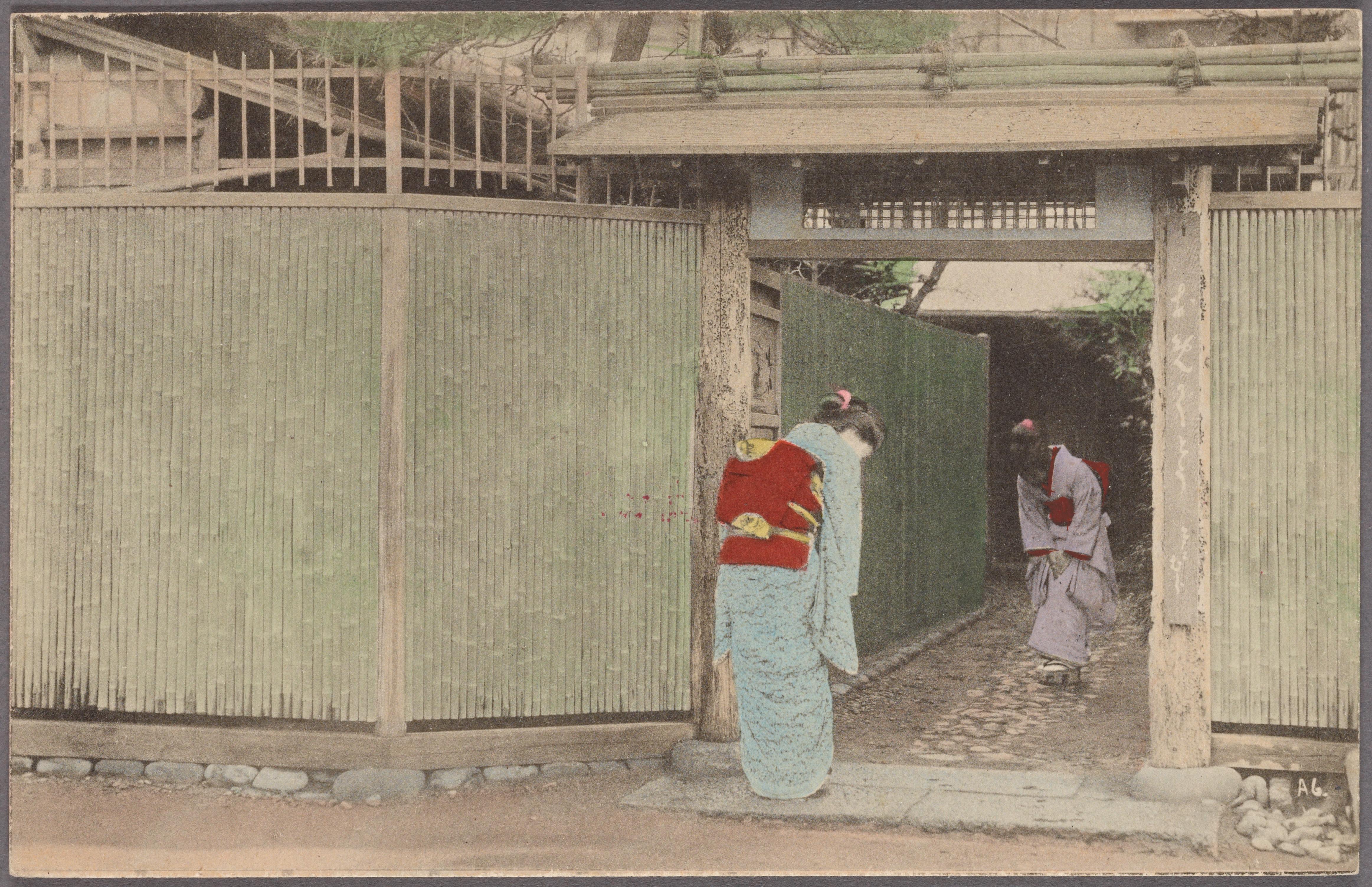 Women bowing to each other in entryway.